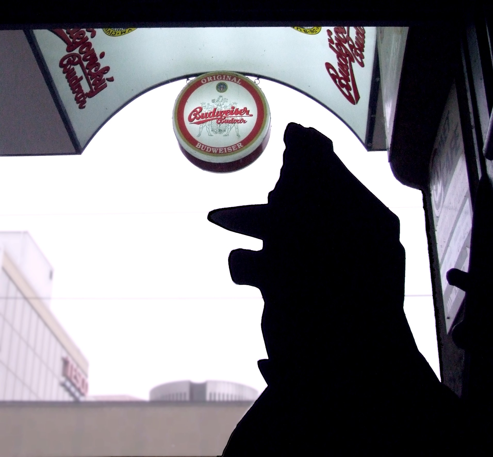 Silhouette of The Good Soldier Švejk at one of Prague's pubs (Spálená Street, Haškova Restaurace)